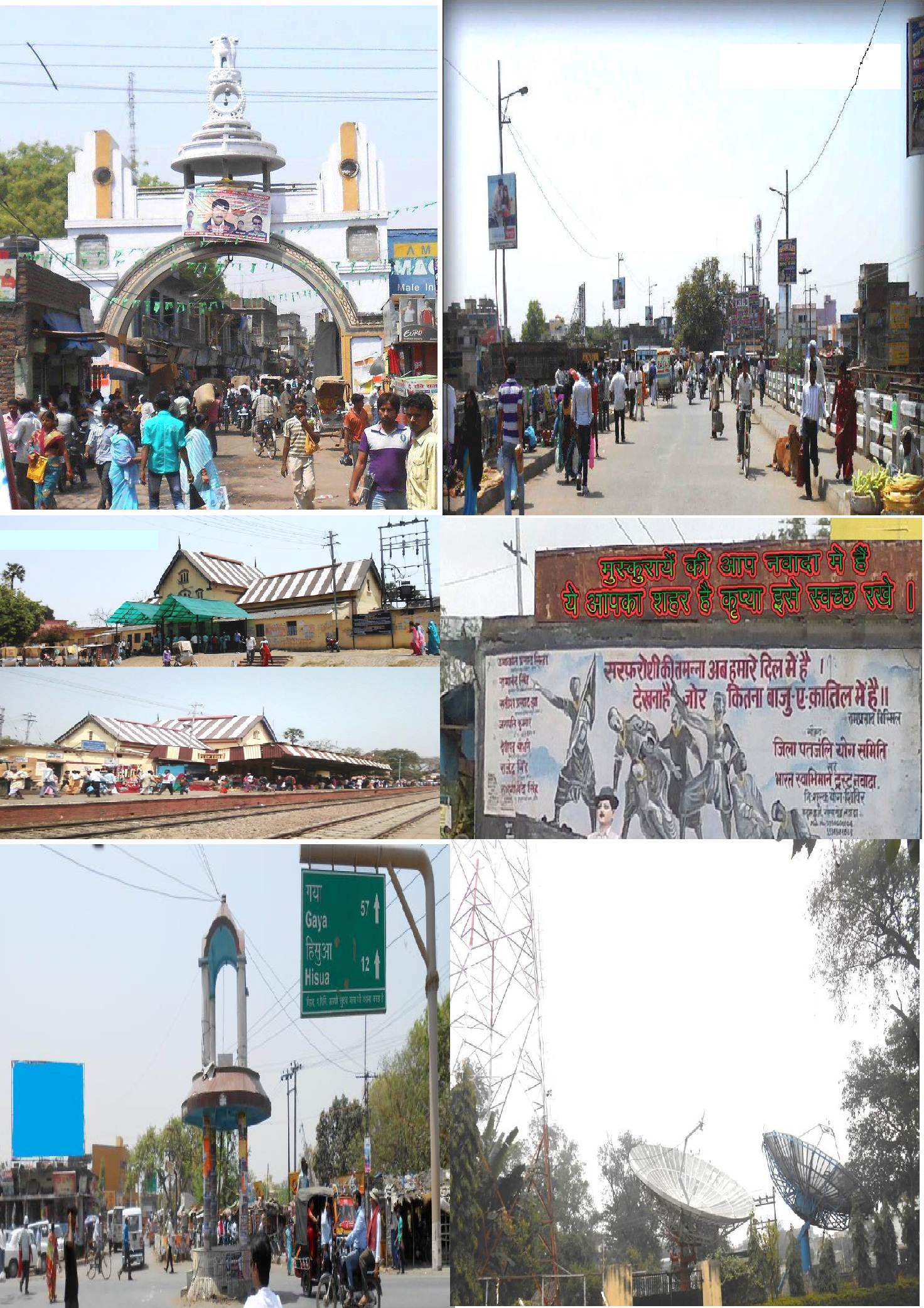 Montage of images of important places in Nawada. Clockwise from top: Prajatantra Dwar, Khoori river bridge connecting north and south part of the city, Bhagat Singh chowck, Doordarshan kendra, Sadbhawan chowck, Nawada Railway Station